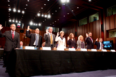 A panel of guests giving testimony about Judge Sonia Sotomayor, who are being sworn in before the Senate Judiciary committee.